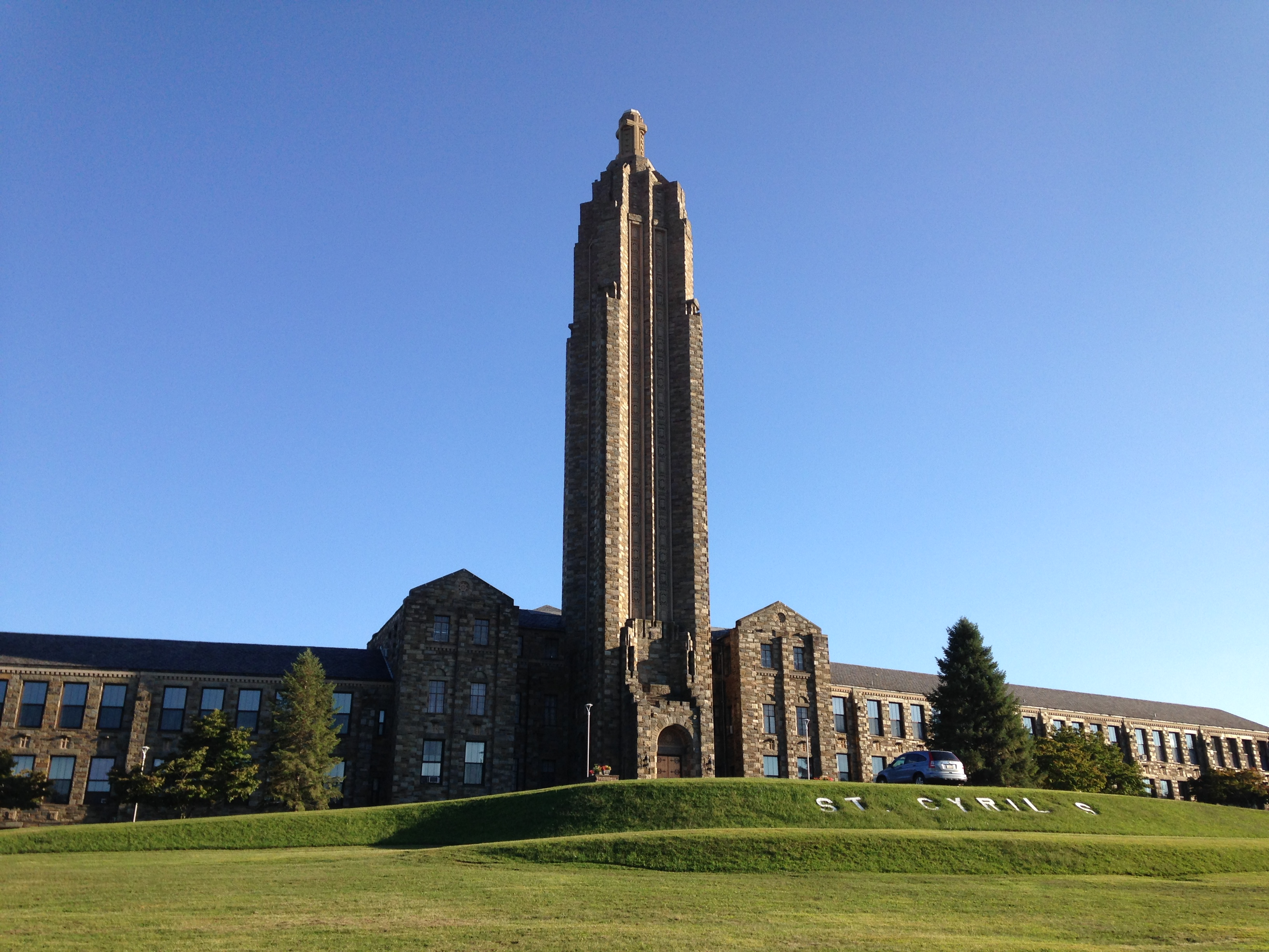 Basilica of Saints Cyril and Methodius - Danville, PA - Exterior facade